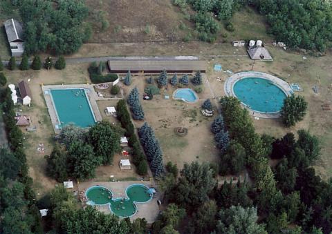 Vajta, Hungary, aerialphotgraphy